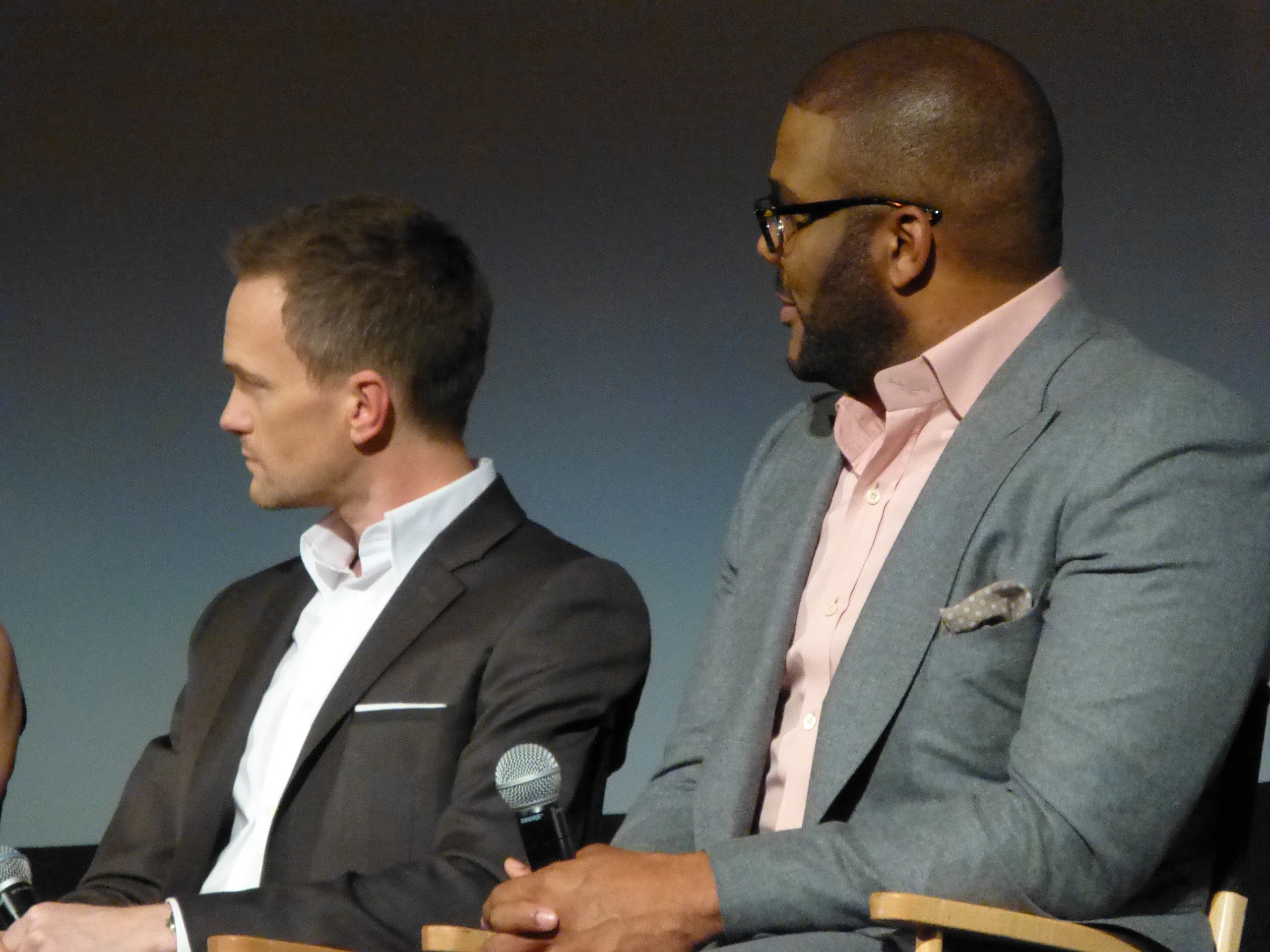 Gone Girl Premiere at the 52nd New York Film Festival, October 2014.